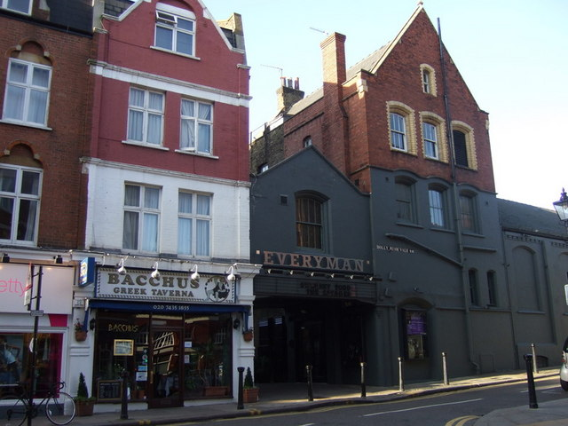 The Everyman cinema, Hampstead Dating from 1933, the Everyman in Holly Bush Row has long been a Hampstead fixture for independent film buffs but, from being a touch on the shabby side, it has metamorphosed into the most luxurious cinema imaginable with armchairs and sofas-for-two complete with cushions and footstools, service at your seat supplying wine, coffee and cakes, and an in-house bar, cafe and restaurant. Films are a mixture of mainsteam and arthouse.